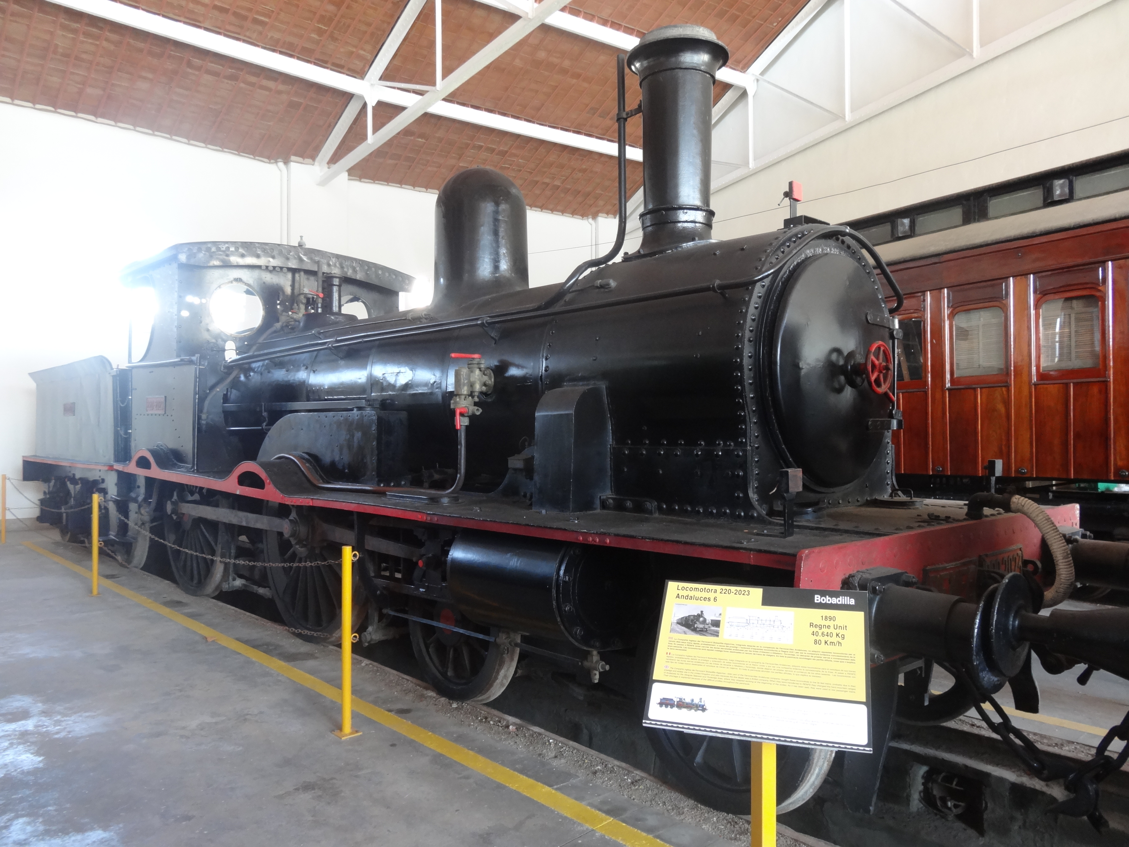 Railway museum (Vilanova i la Geltrú).